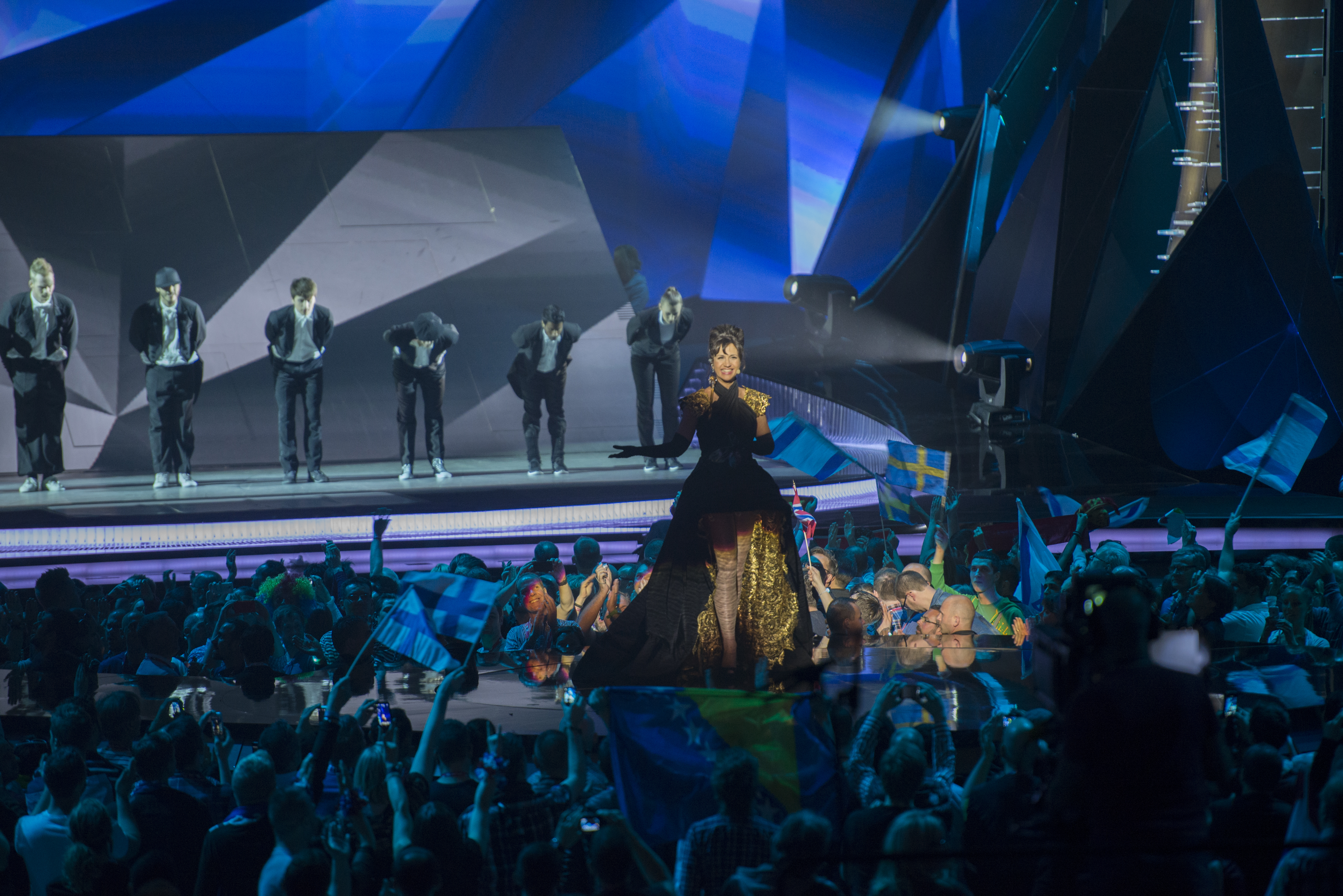 The opening act of the second semi final, during the second dress rehearsal in the Eurovision Song Contest 2013 in Malmö. (Help translate this text)